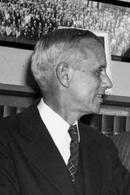 Edmund Ware Sinnott, 1947 at the AAAS